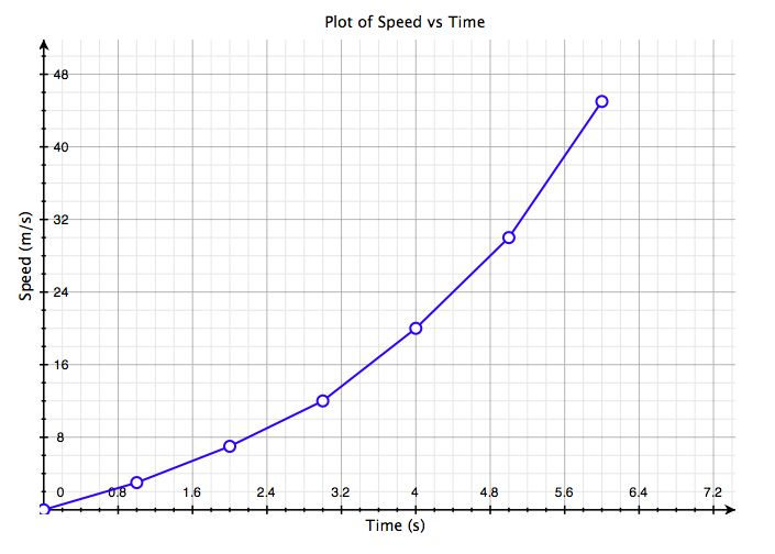 Simple example of a physical science graph of two physical quantities.